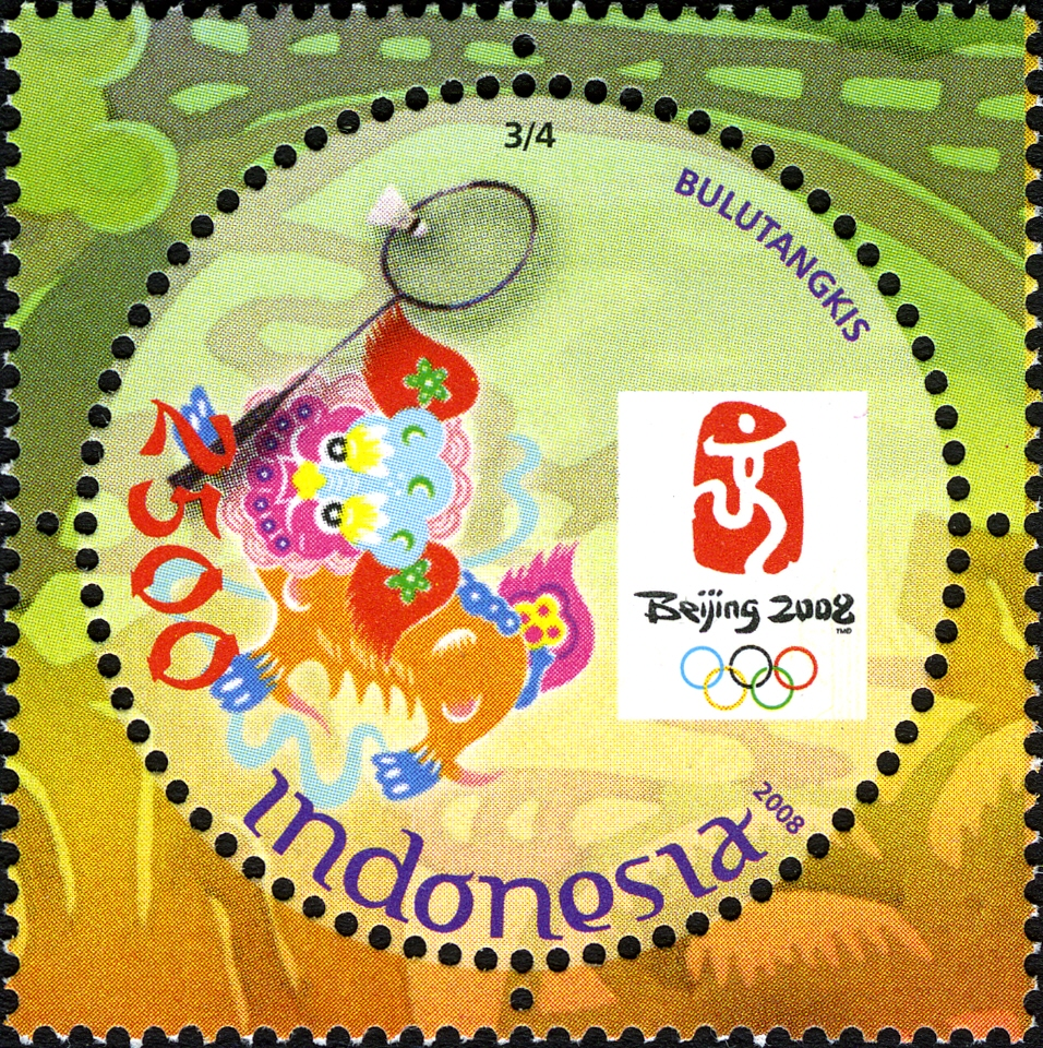 Stamps of Indonesia